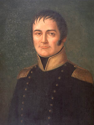 Jacques Phillippe Villeré (April 28, 1761 - 7 March 1830) second US Governor of Louisiana after the Louisiana Purchase.